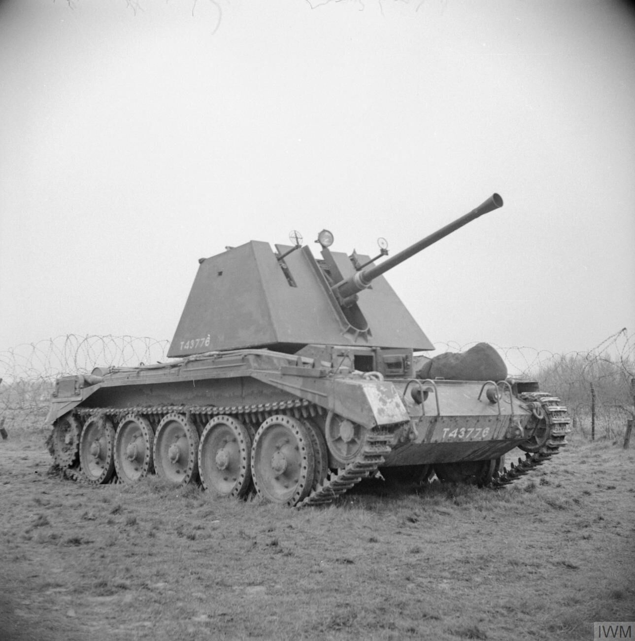 THE BRITISH ARMY IN THE UNITED KINGDOM 1939-45; Crusader III anti-aircraft tank with 40mm Bofors gun, at the Armoured Fighting Vehicle School, Gunnery Wing at Lulworth in Dorset.